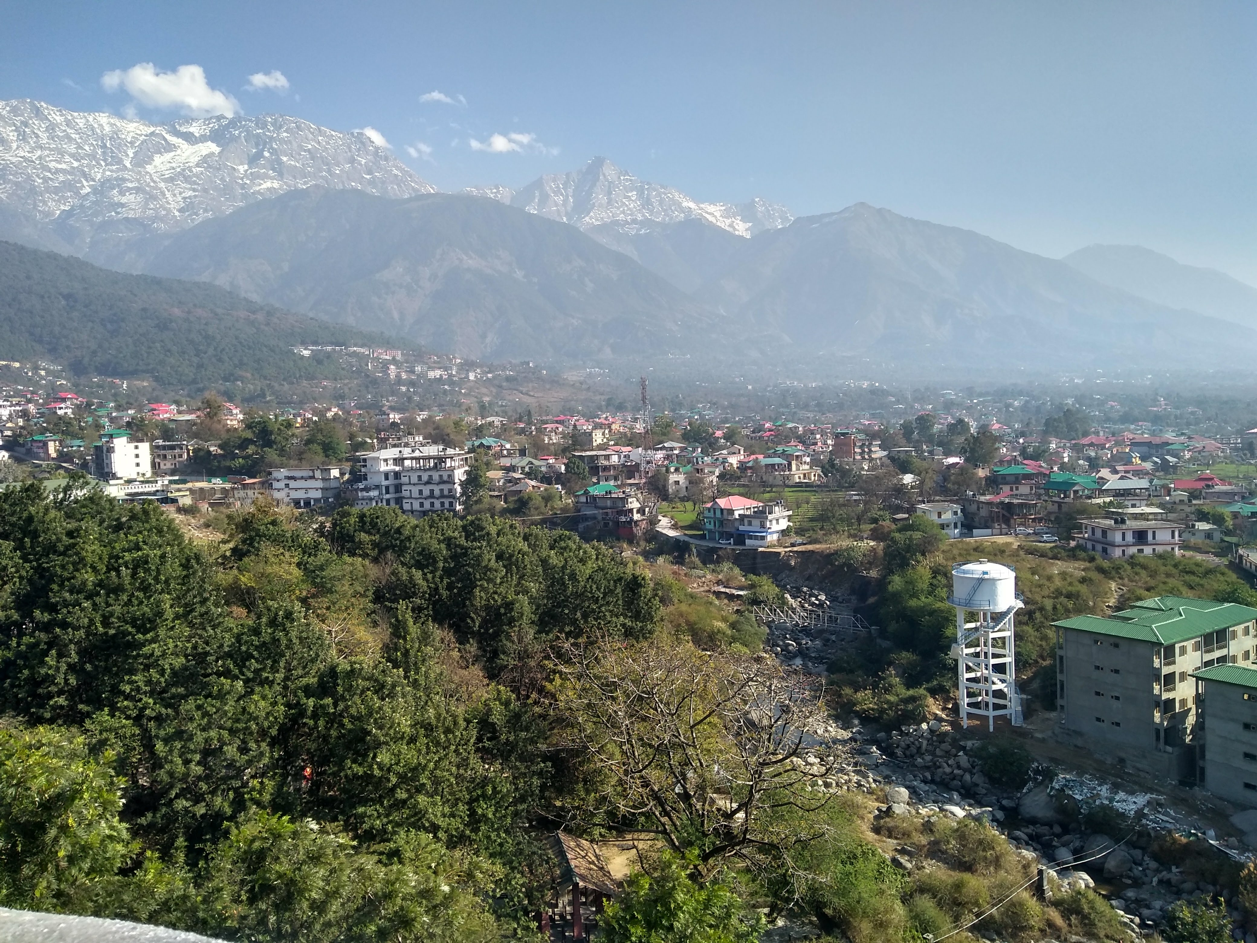 View of Dharamshala, HImachal Pradesh.